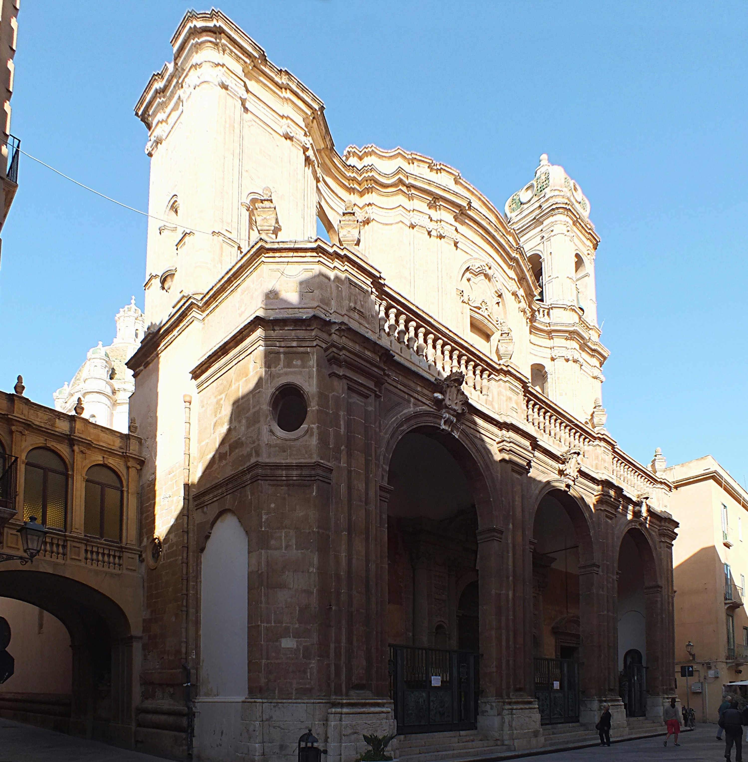 Trapani, Italien: Kathedrale San Lorenzo